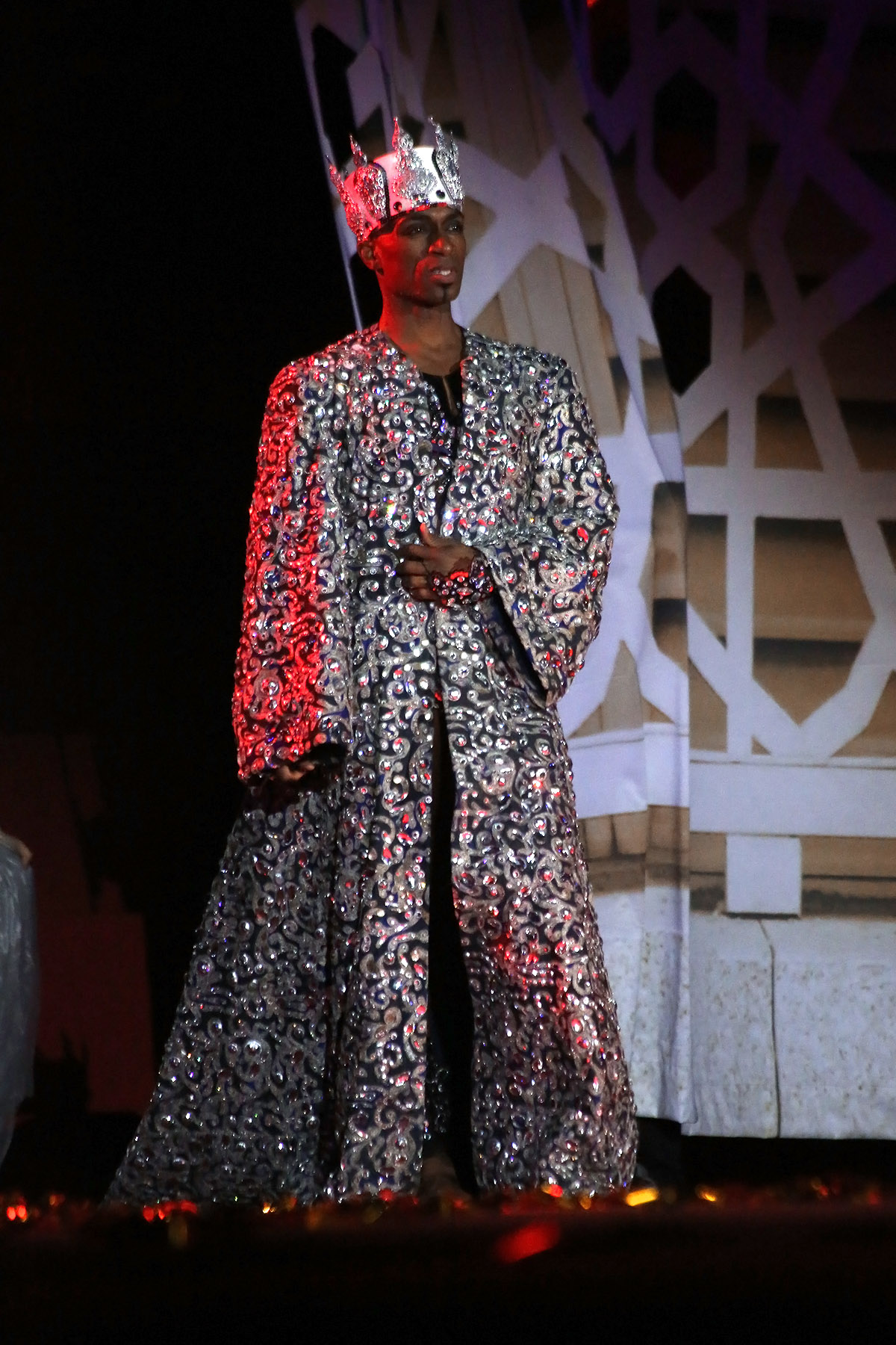 Desmond Richardson, opening show of Life Ball 2013 at the city hall of Vienna, Vienna, Austria.